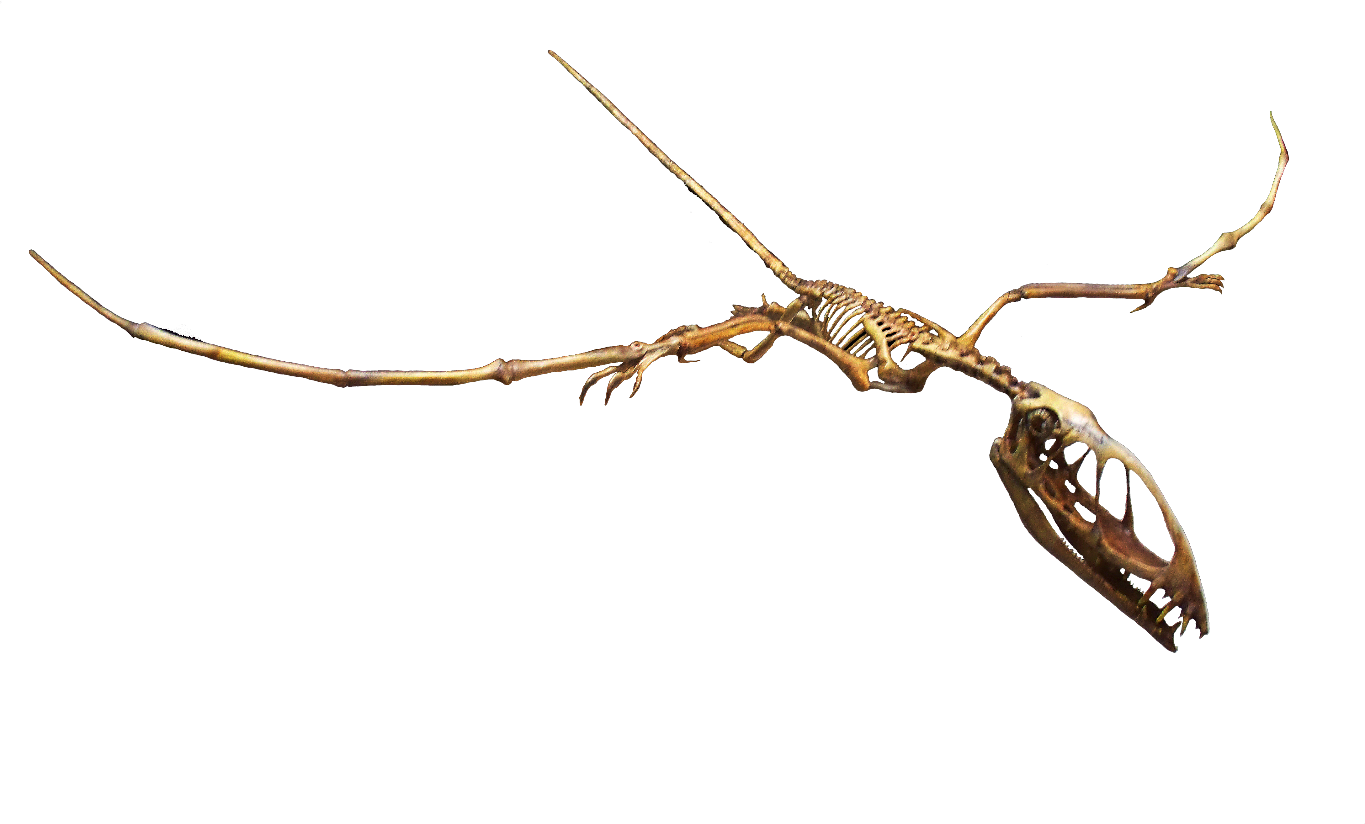 3D skeletal reconstruction of Dimorphodon posed in flight, Rocky Mountain Dinosaur Resource Center.